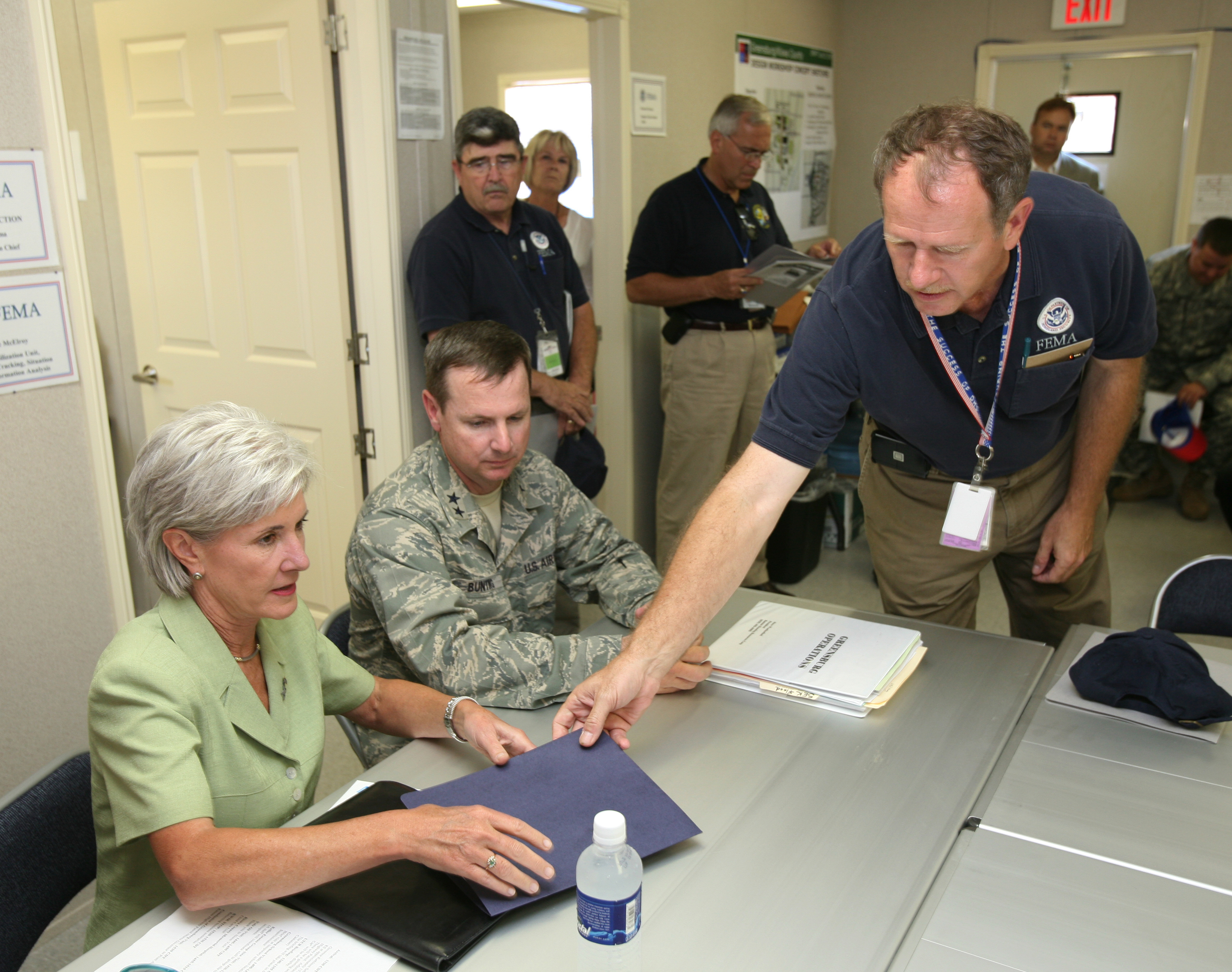 Greensberg, KS, July 26, 2007 - FEMA Regional Administrator Dick Hainje hands an update on the progress in rebuilding Greensberg to Kansas Governor Kathleen Sebelius and Kansas Adjutant General and Director of Emergency Management, Major General Tod Bunting. The Kansas town is in the process of rebuilding after an F5 tornado in May. FEMA/Leif Skoogfors